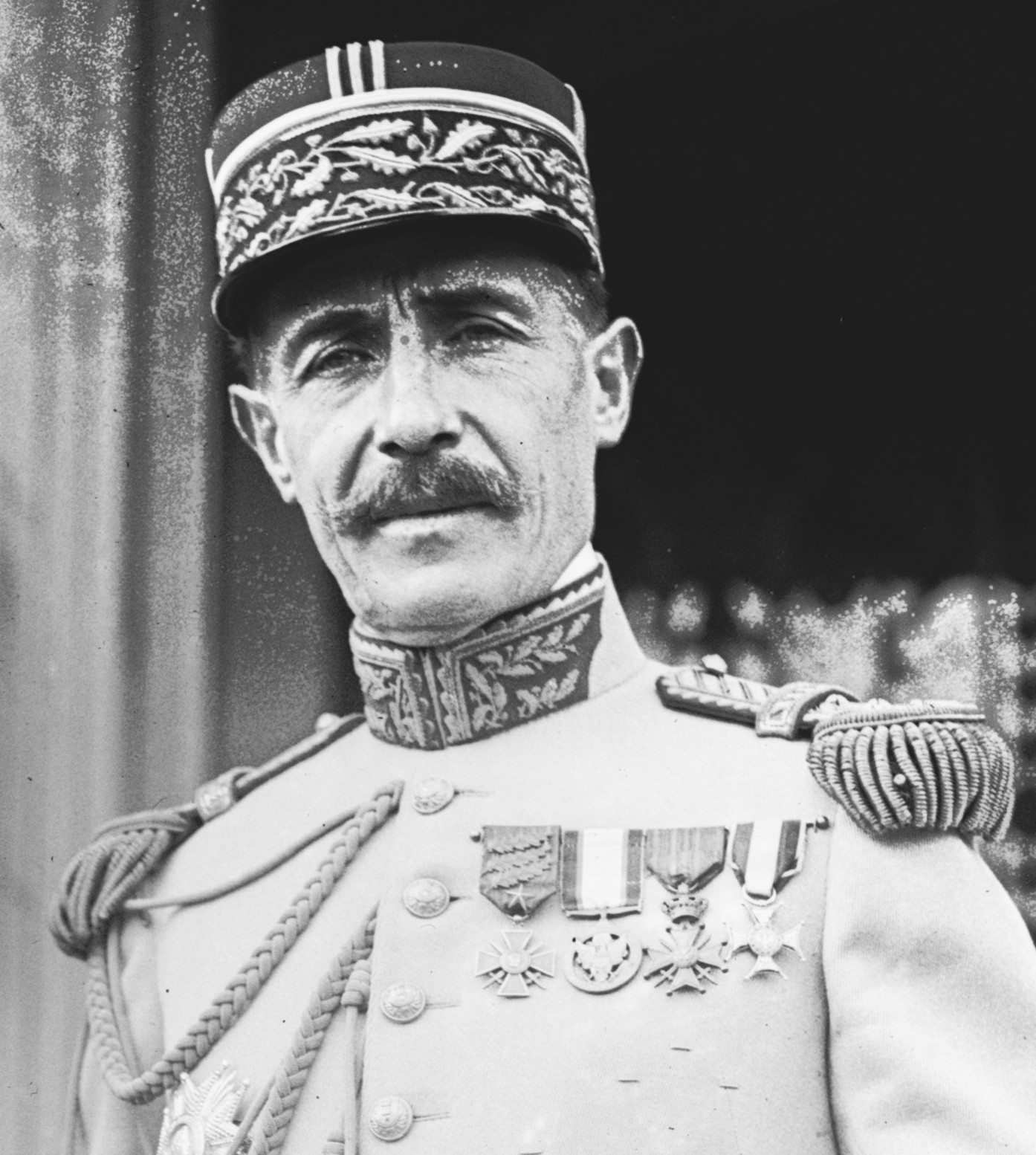 French general Edmond Buat (1868-1923)